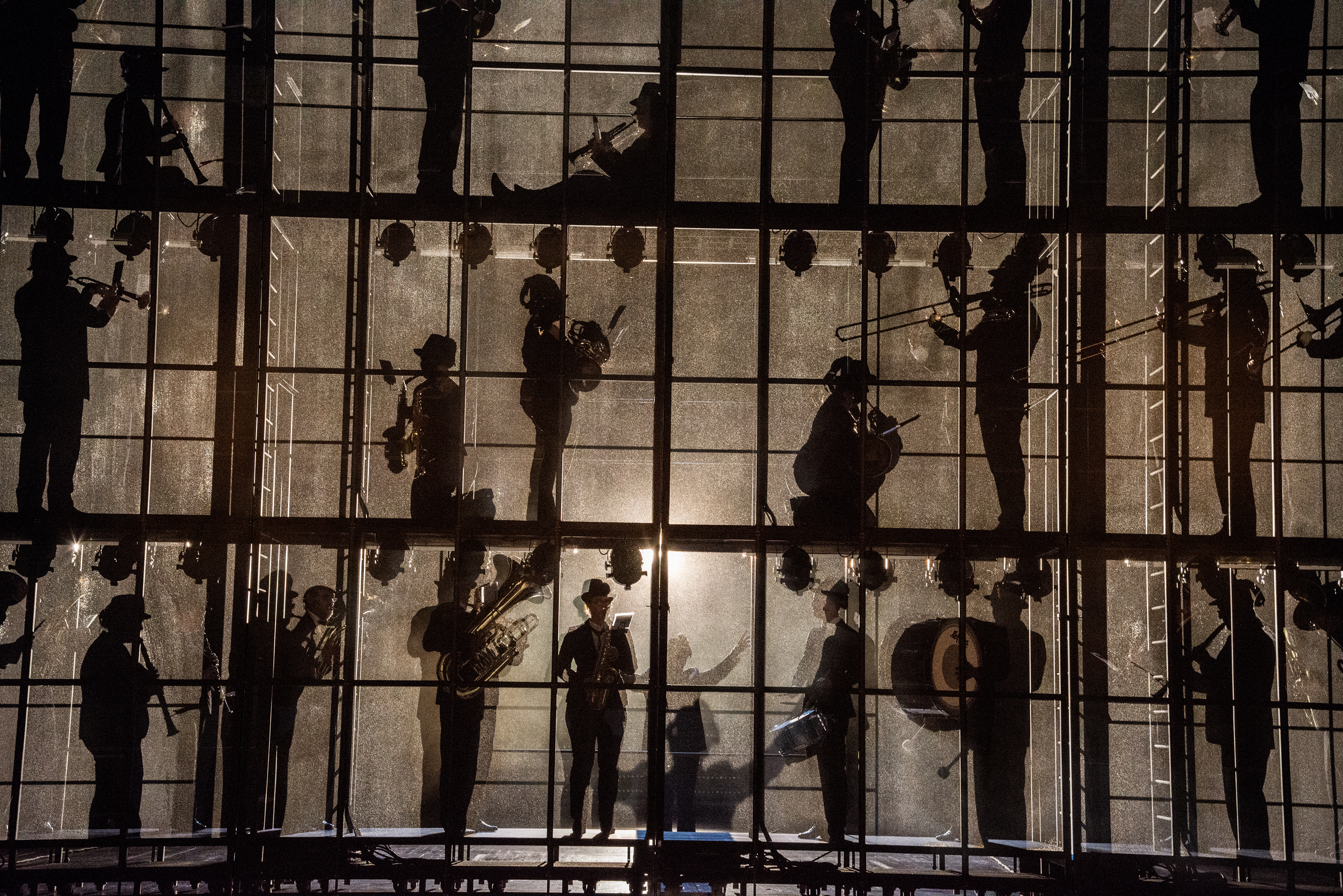 Die letzten Tage der Menschheit, Salzburger Festspiele 2014